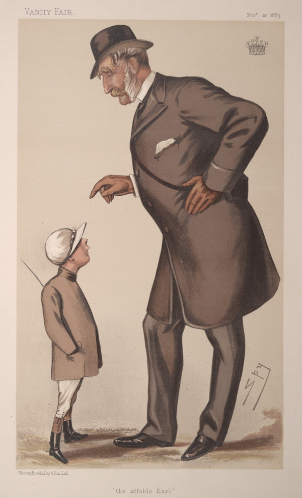 Statesmen No.437: Caricature of The Earl of Westmorland. Caption reads: "the affable Earl"